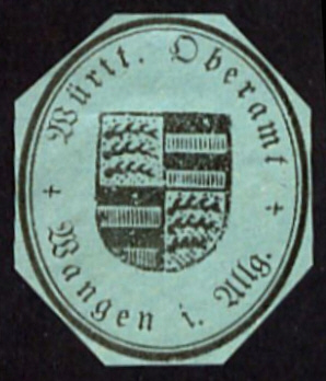 Letter seal stamp of Oberamt Wangen, Württemberg, 19th or early 20th century